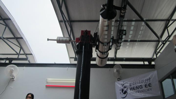 APM-TMB 2050/228 F9 APO telescope in Heng Ee Observatory, Bangunan Wawasan Heng Ee Roof Level